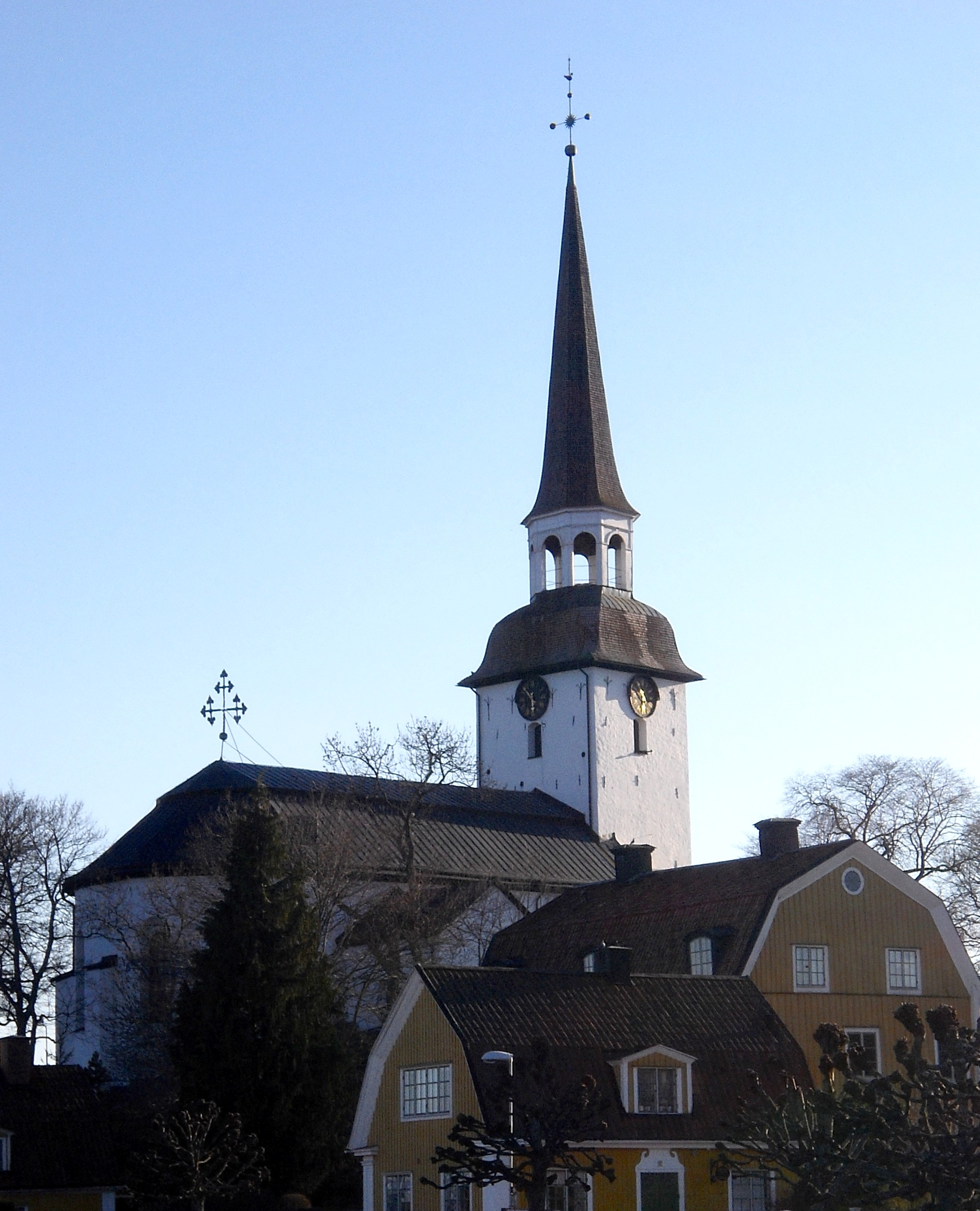 The church in the town Mariefred in Sweden